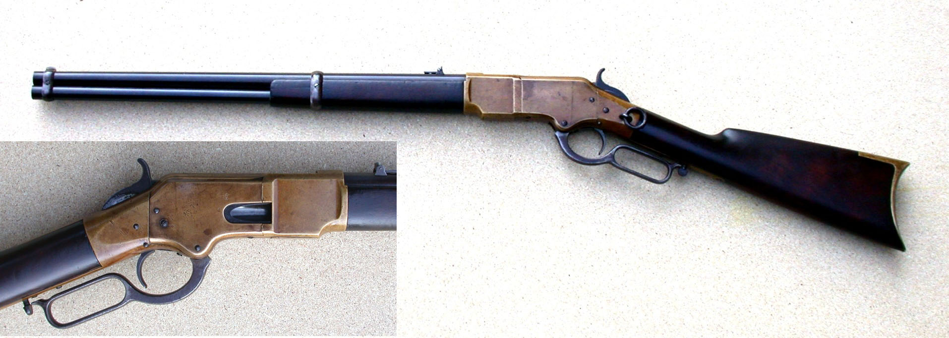 Early Winchester Mod. 1866 Carbine